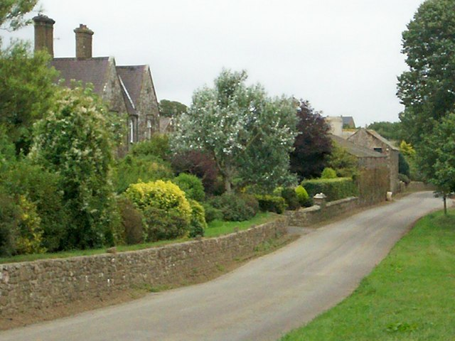 Colby House.